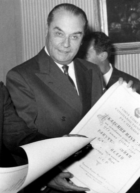 The Italian archaeologist and art historian Ranuccio Bianchi Bandinelli posing in the Soviet Embassy to receive diploma of the U.S.S.R. Academy of Sciences. Rome, 19th October 1959